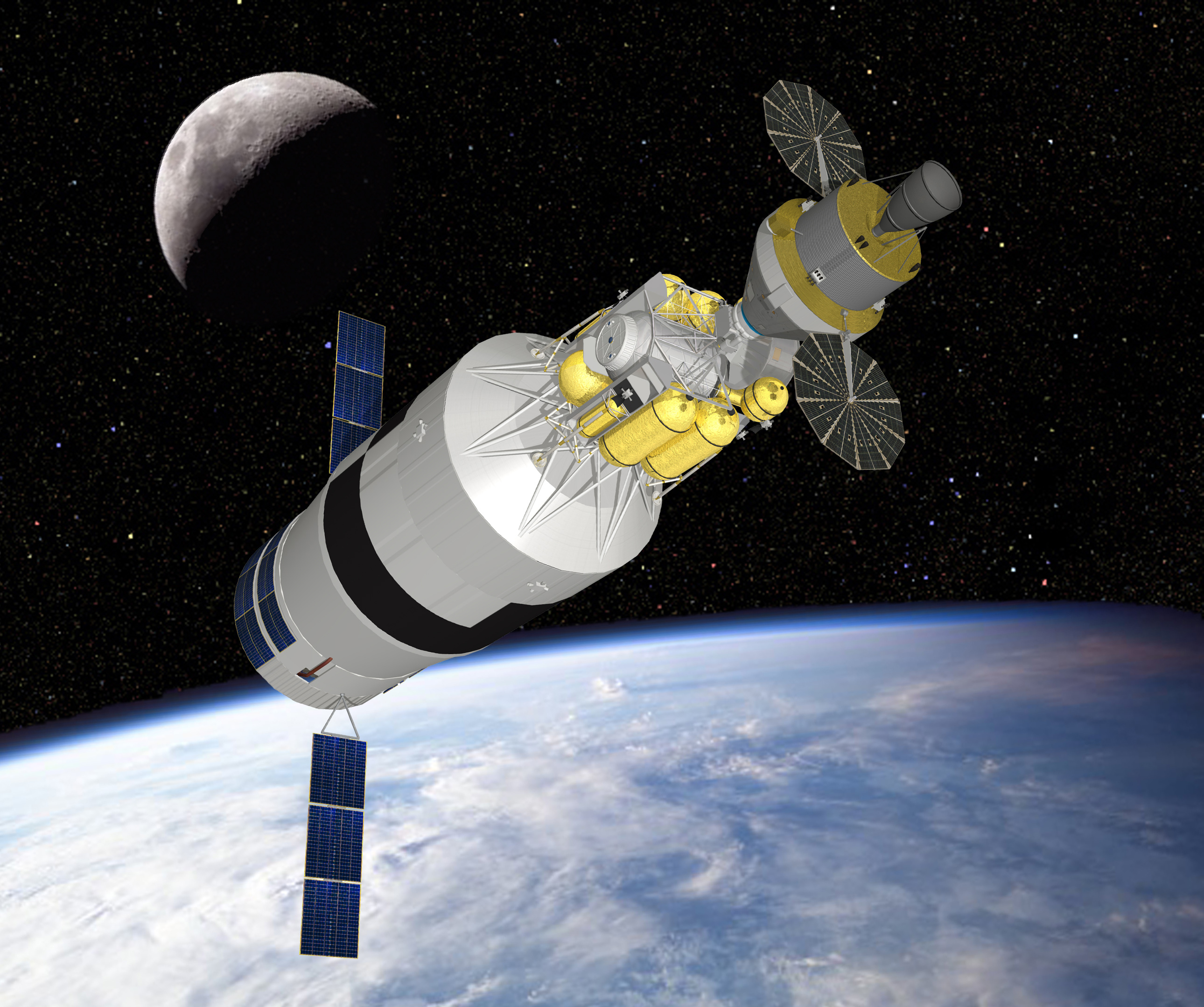 Earth Departure Stage with Altair and Orion